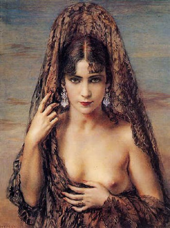 Idolo Eterno Eternal Idol 1931 Watercolour 51 x 68 cms | 20 x 26 3/4 ins